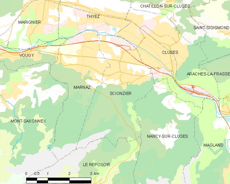 Map of French municipality Scionzier